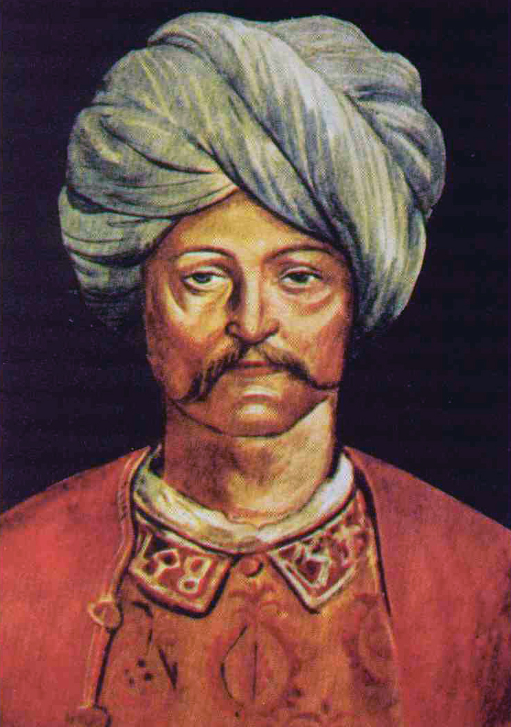 Modified copy of the Prince Cem's portrait painted by Pinturicchio. [1]